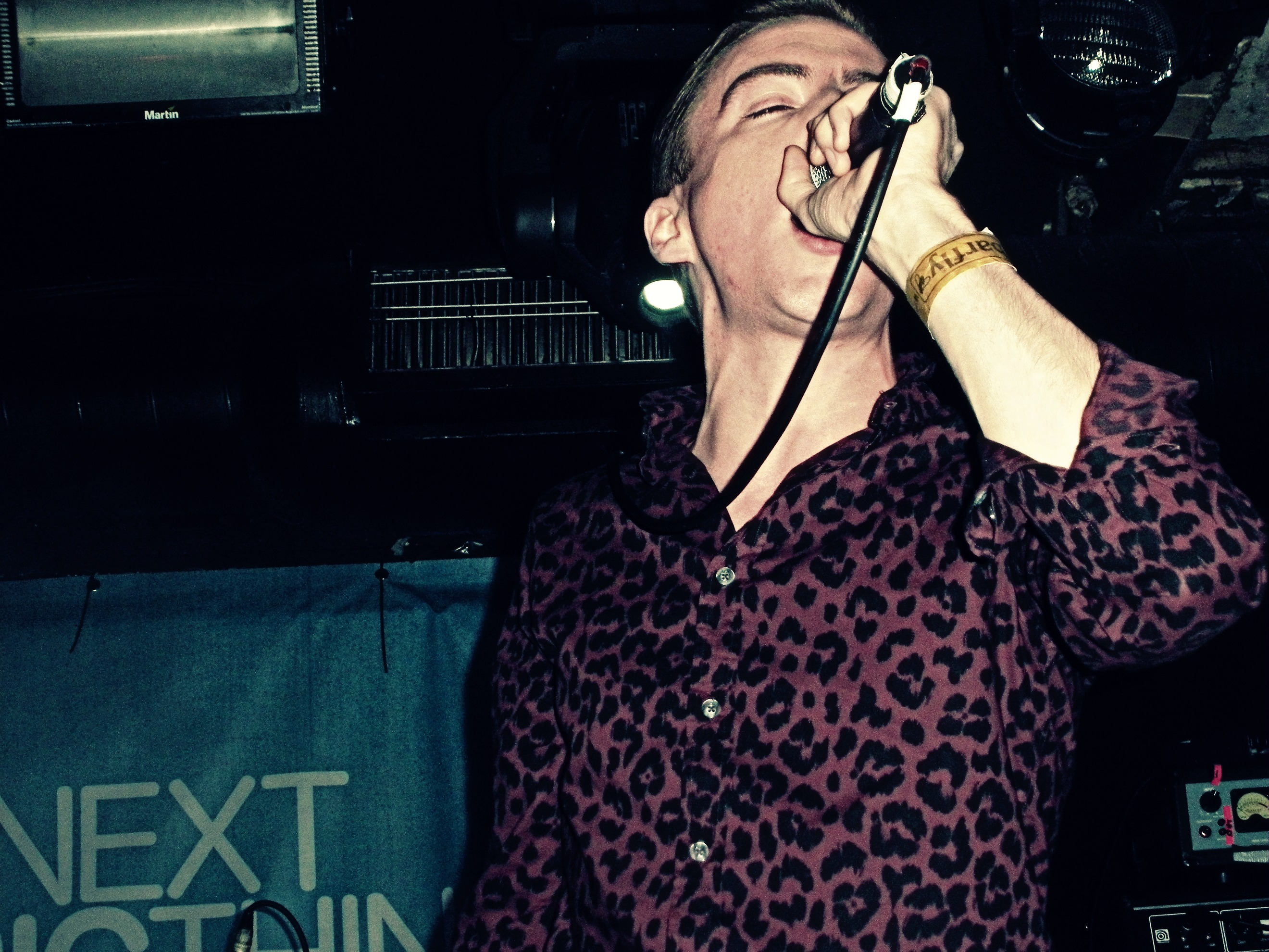 Eugene McGuinness live at Barfly feb 3rd 2012, London